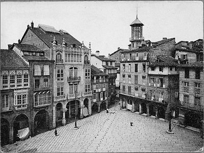 Photo of year 1900 of the Praza Maior in Ourense (Galicia, Spain).